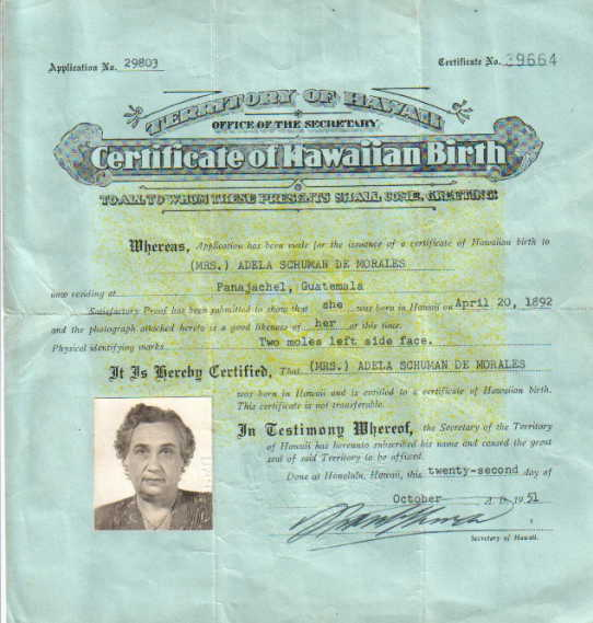 Adela Schuman de Morales´Hawaiian birth certificate.